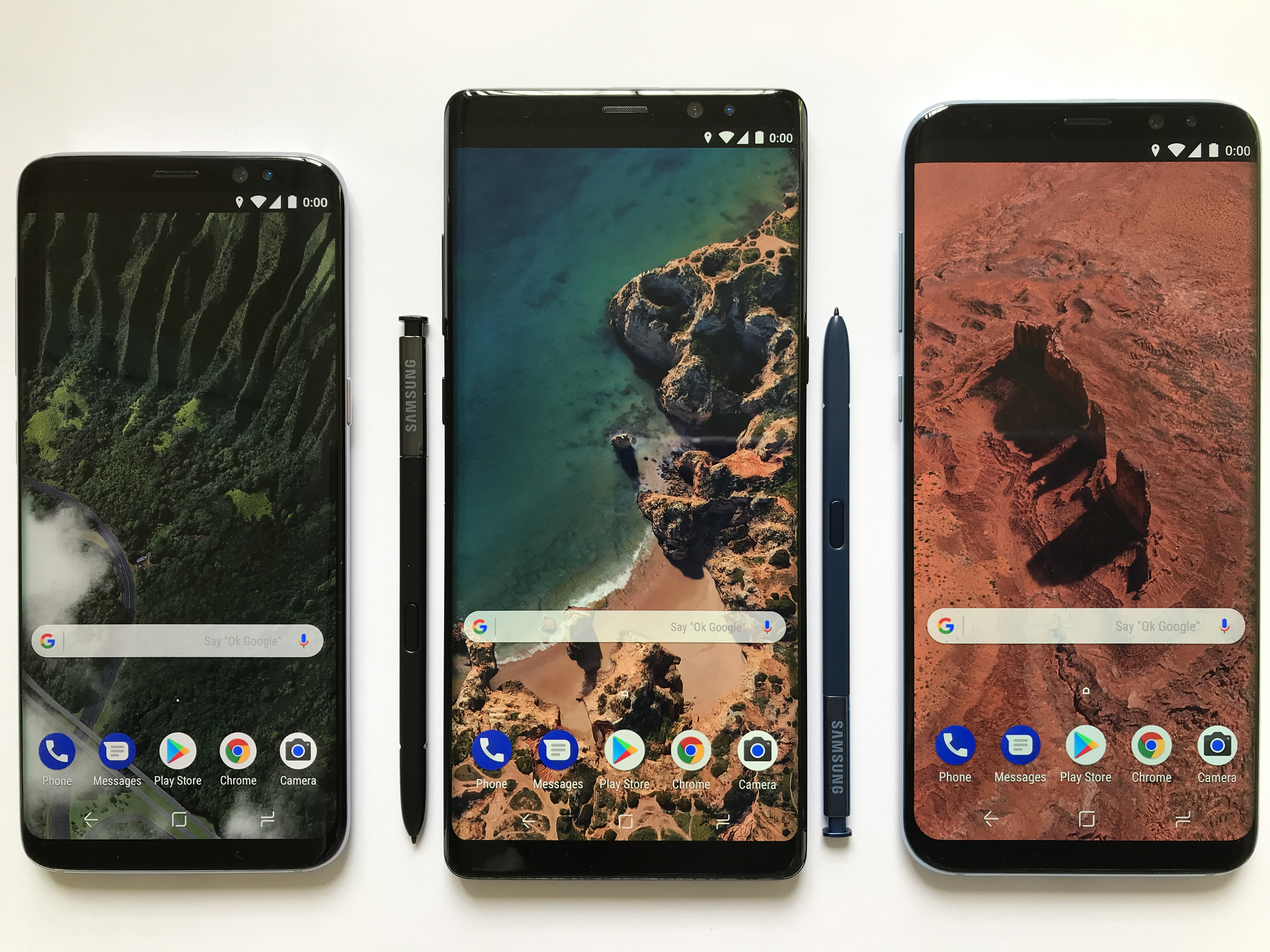 Smartphones with Android operating system